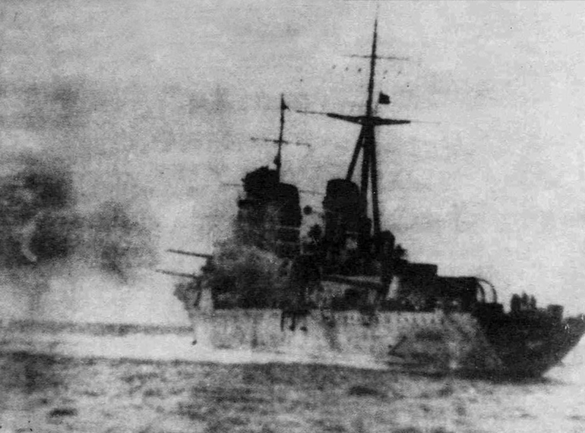 The Soviet cruiser Molotov, 1941-1942.